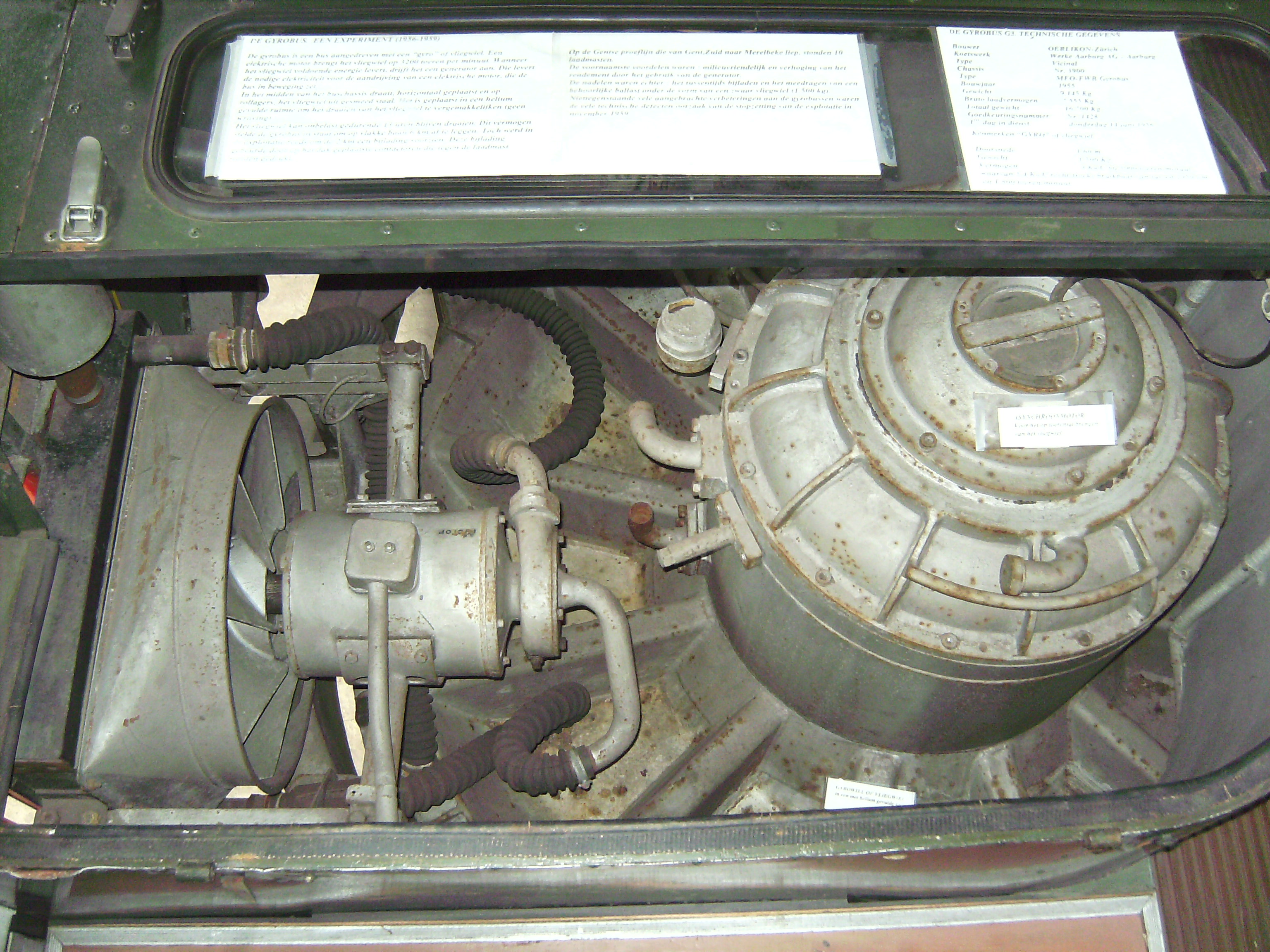 Engine of the Gyrobus G3, the only surviving gyrobus in the world (build in 1955 in the Flemish tamway and bus museum, Antwerp.